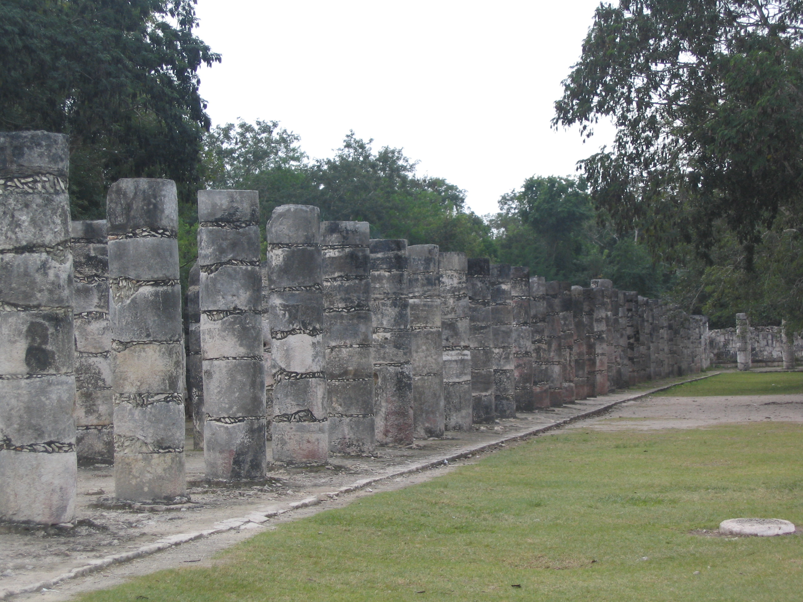 Tempel der 1000 Säulen Chichén Itzá own Work Jan 2007